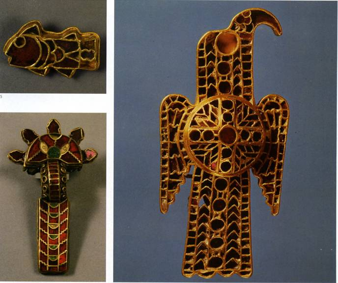 Lombard fibulae.